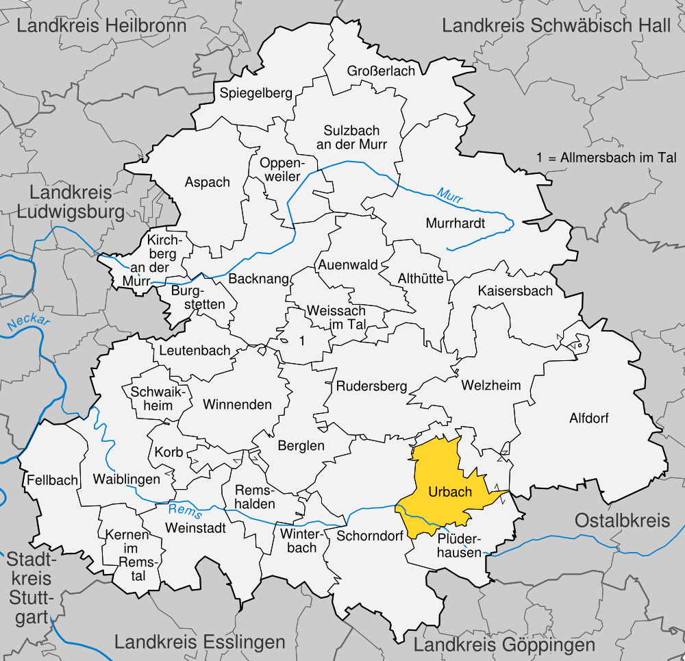 position of Urbach within the Rems-Murr-Kreis, Baden-Württemberg, Germany